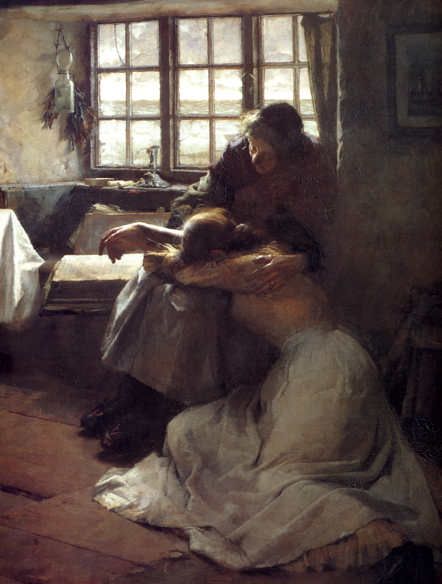 Bramley. Oil painting. 1888.